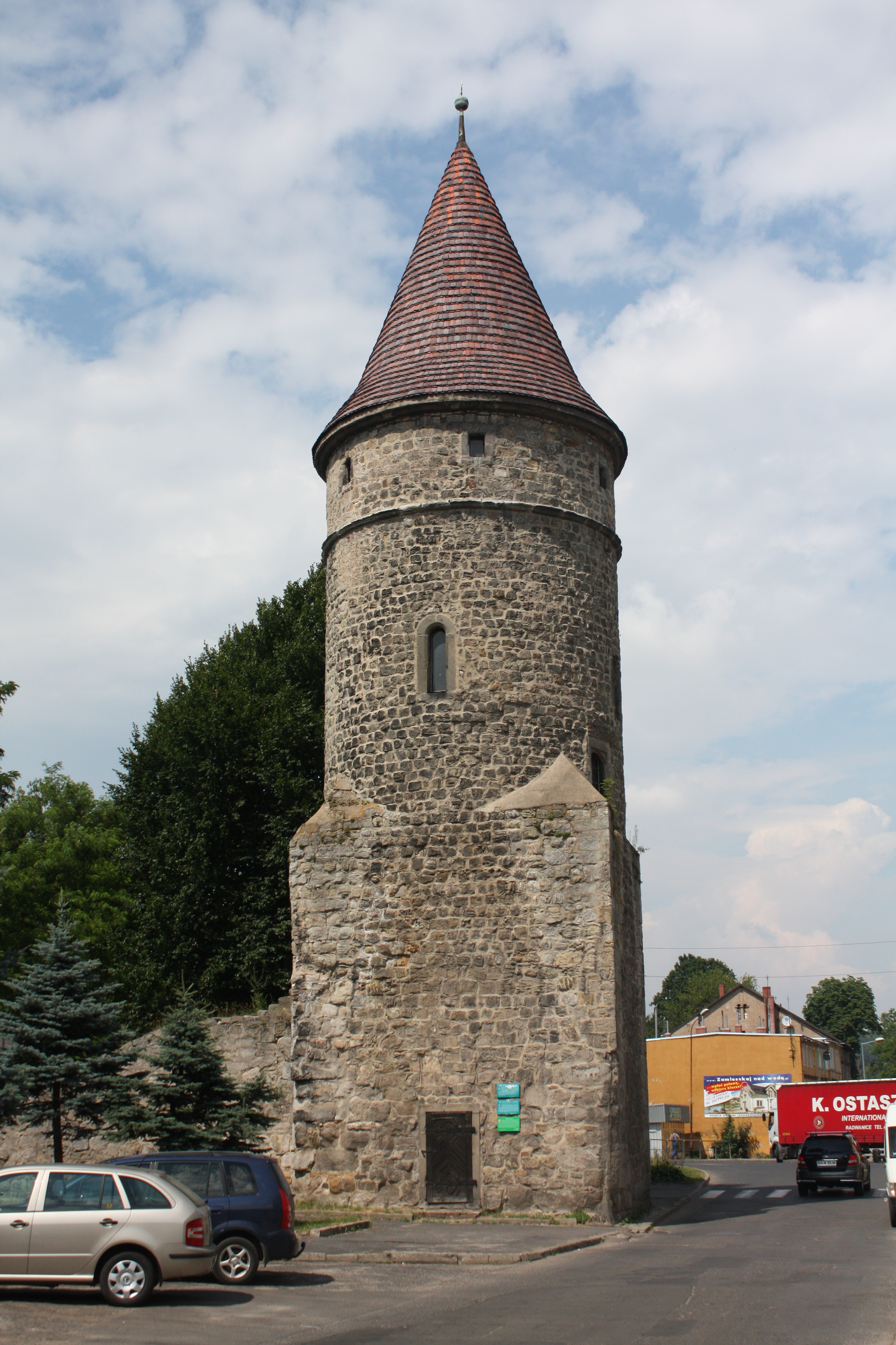 This photo of Lower Silesian Voivodeship was taken during Wikiexpedition 2013 set up by Wikimedia Polska Association. You can see all photographs in category Wikiekspedycja 2013. English | Polski | +/−